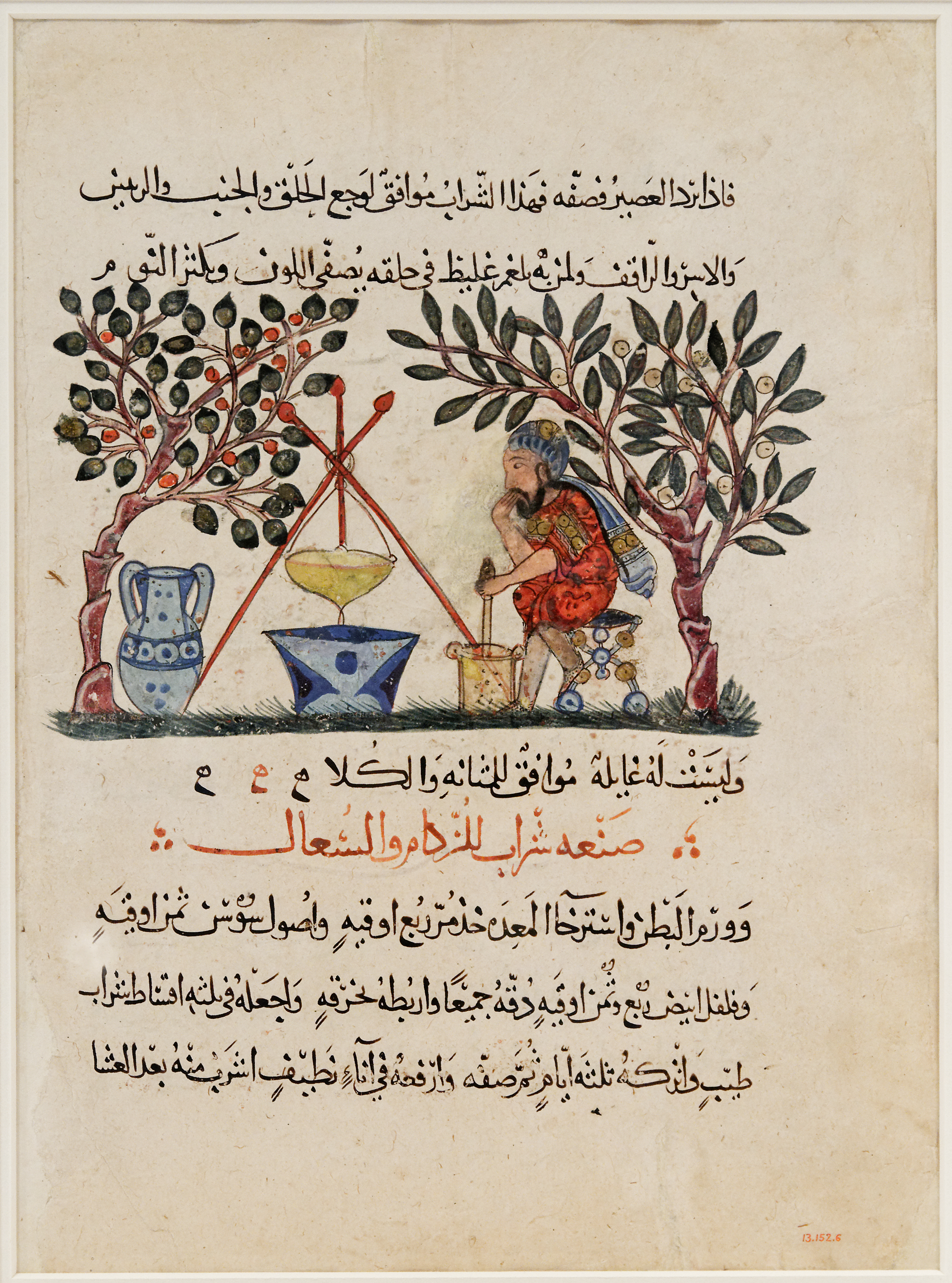 Physician preparing an elixir: folio from a manuscript of the De Materia Medica by Dioscorides (ca. 40–90 AD).